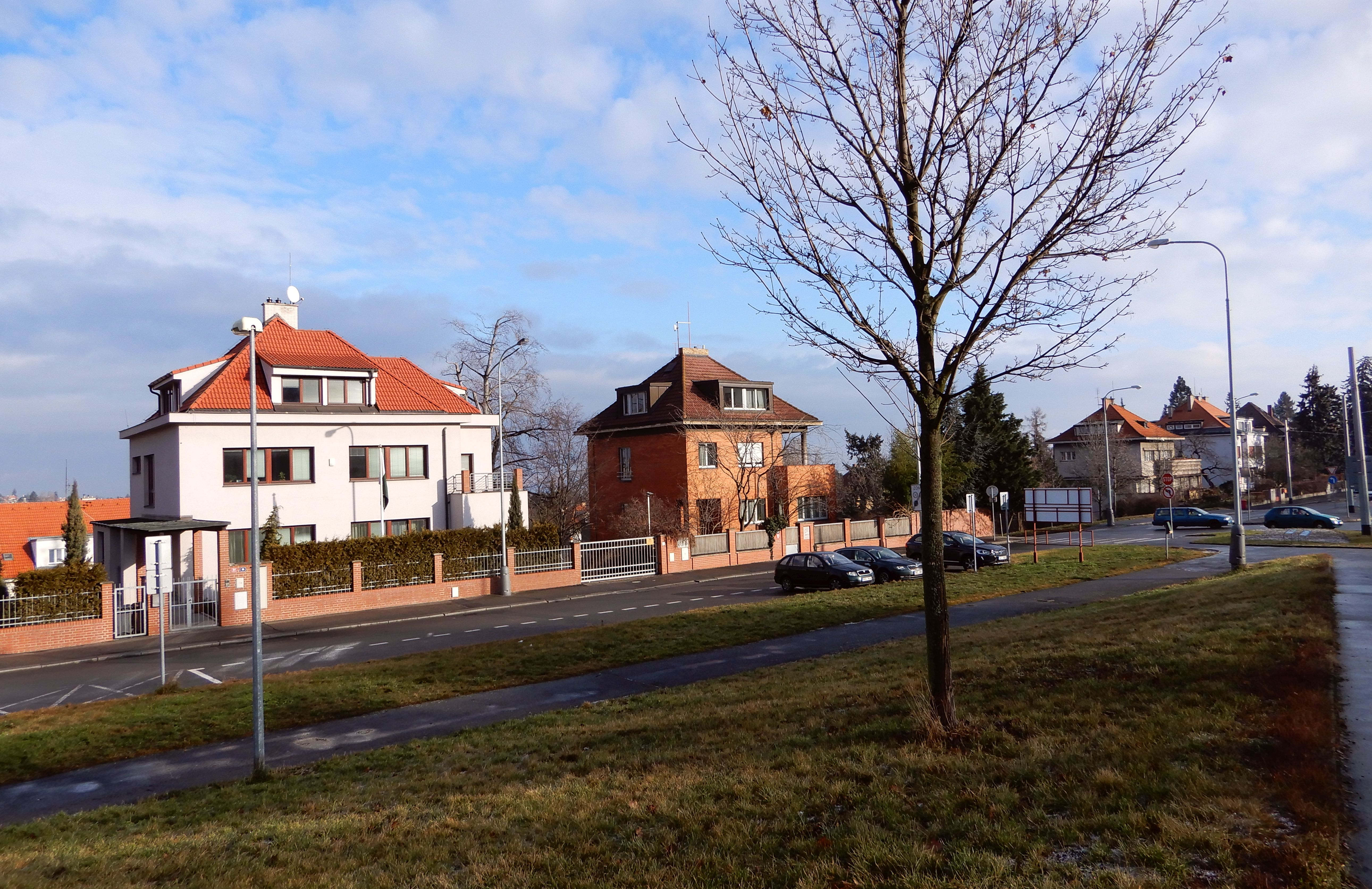 Střešovická street - crossing with the street V průhledu